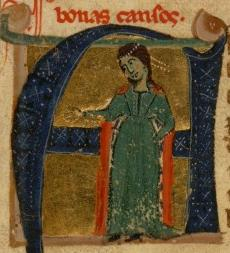 Taken from Cunnan wiki. Miniature of Beatritz de Dia from a 13th-century chansonnier.